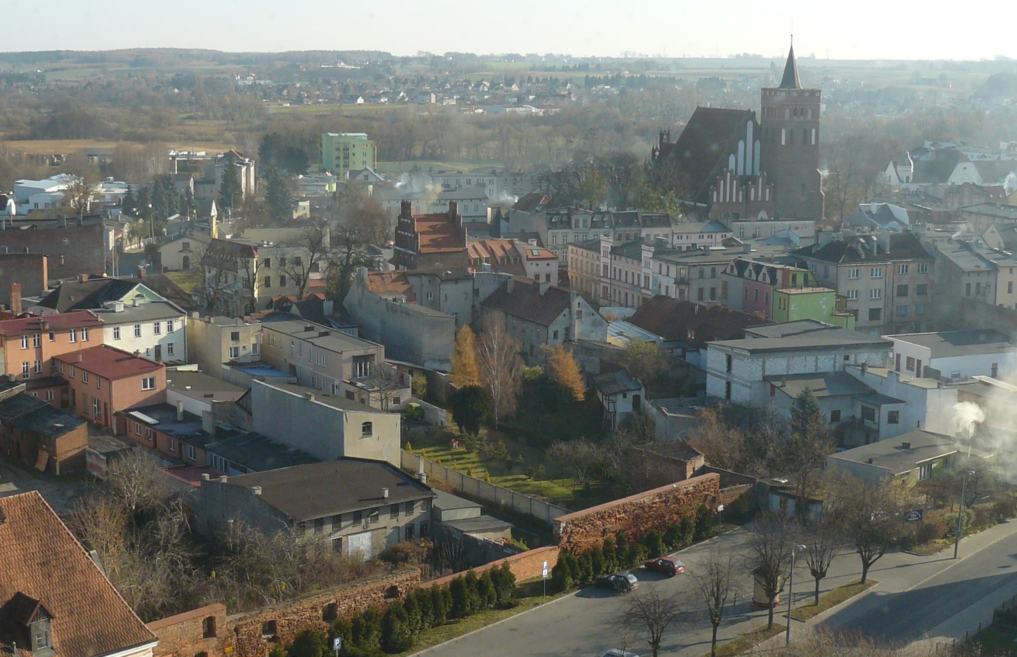 Brodnica - city center. View from the castle tower.